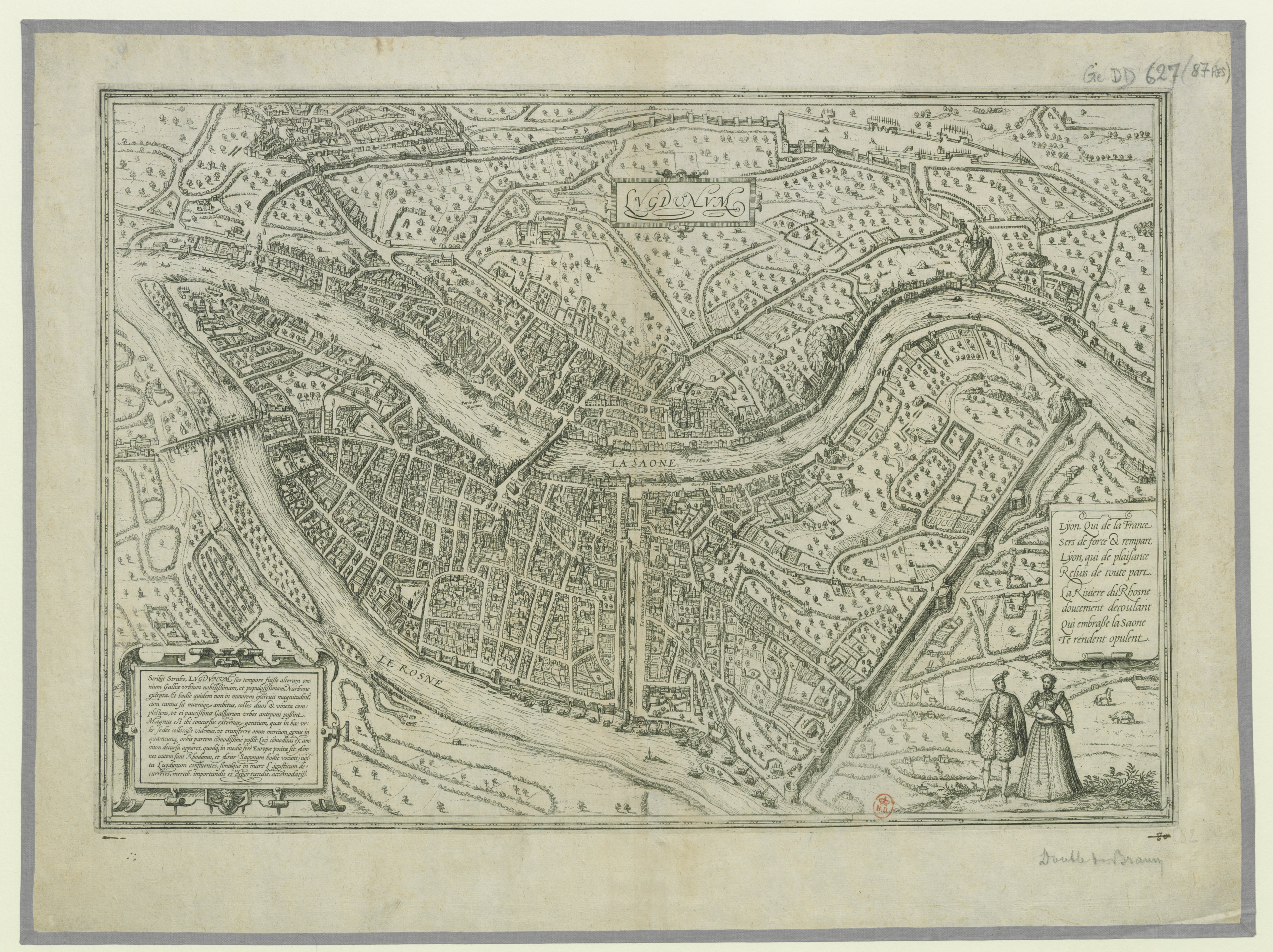 Lugdunum (Lyon) in 1572.